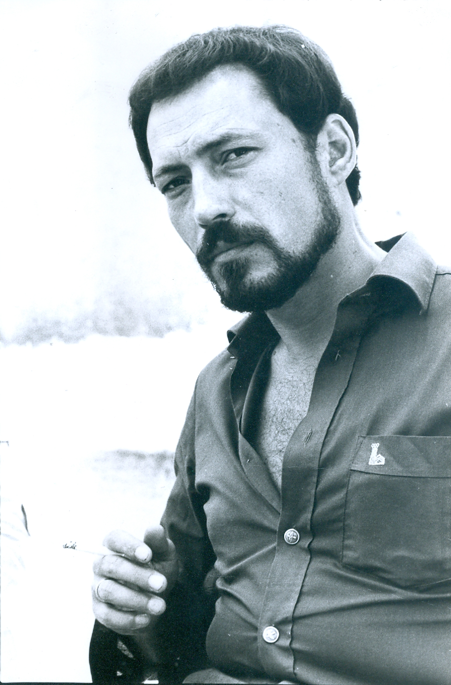 Ranko Munitić (1943-2009), circa 1980